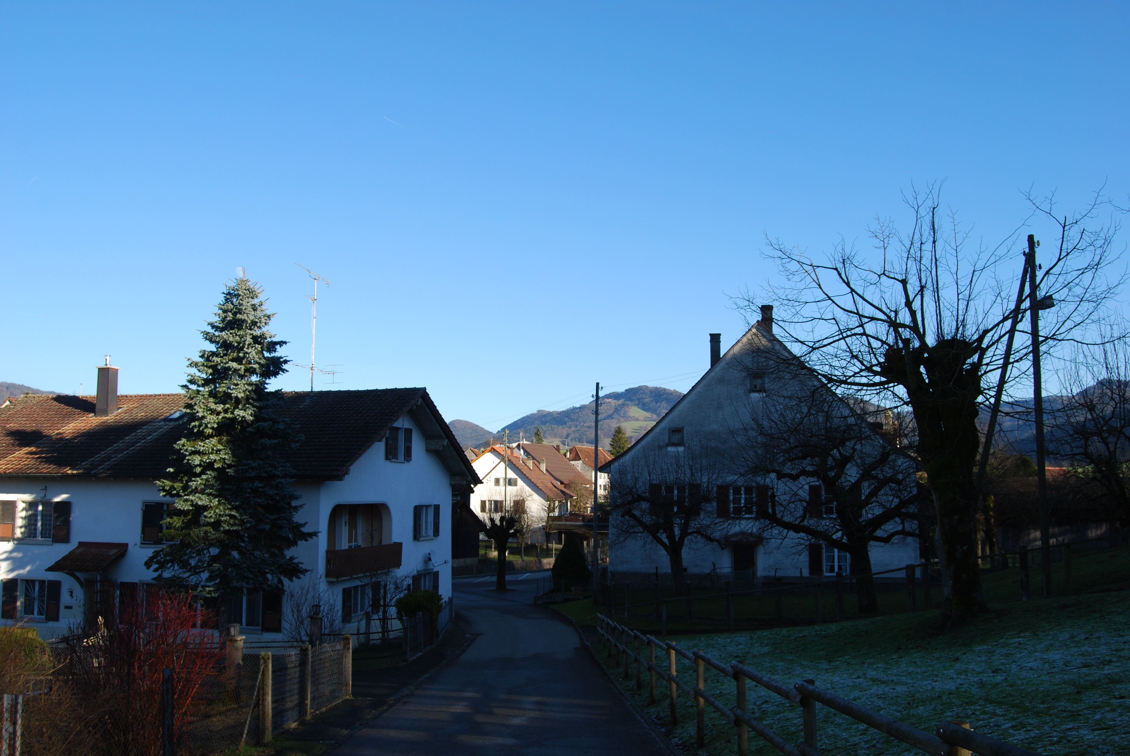 Courchapoix, canton of Jura, Switzerland